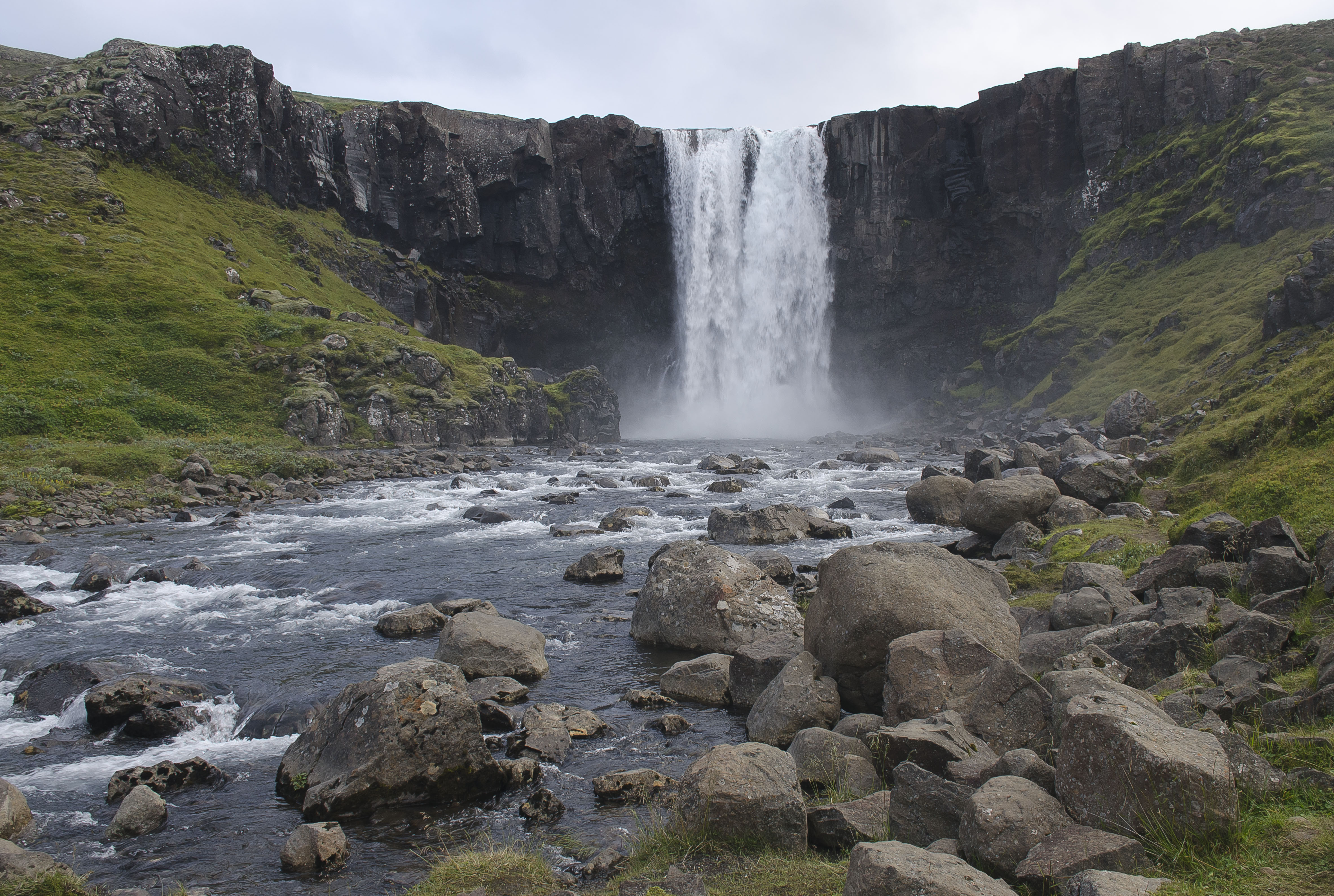 Gufufoss, Eastern Iceland